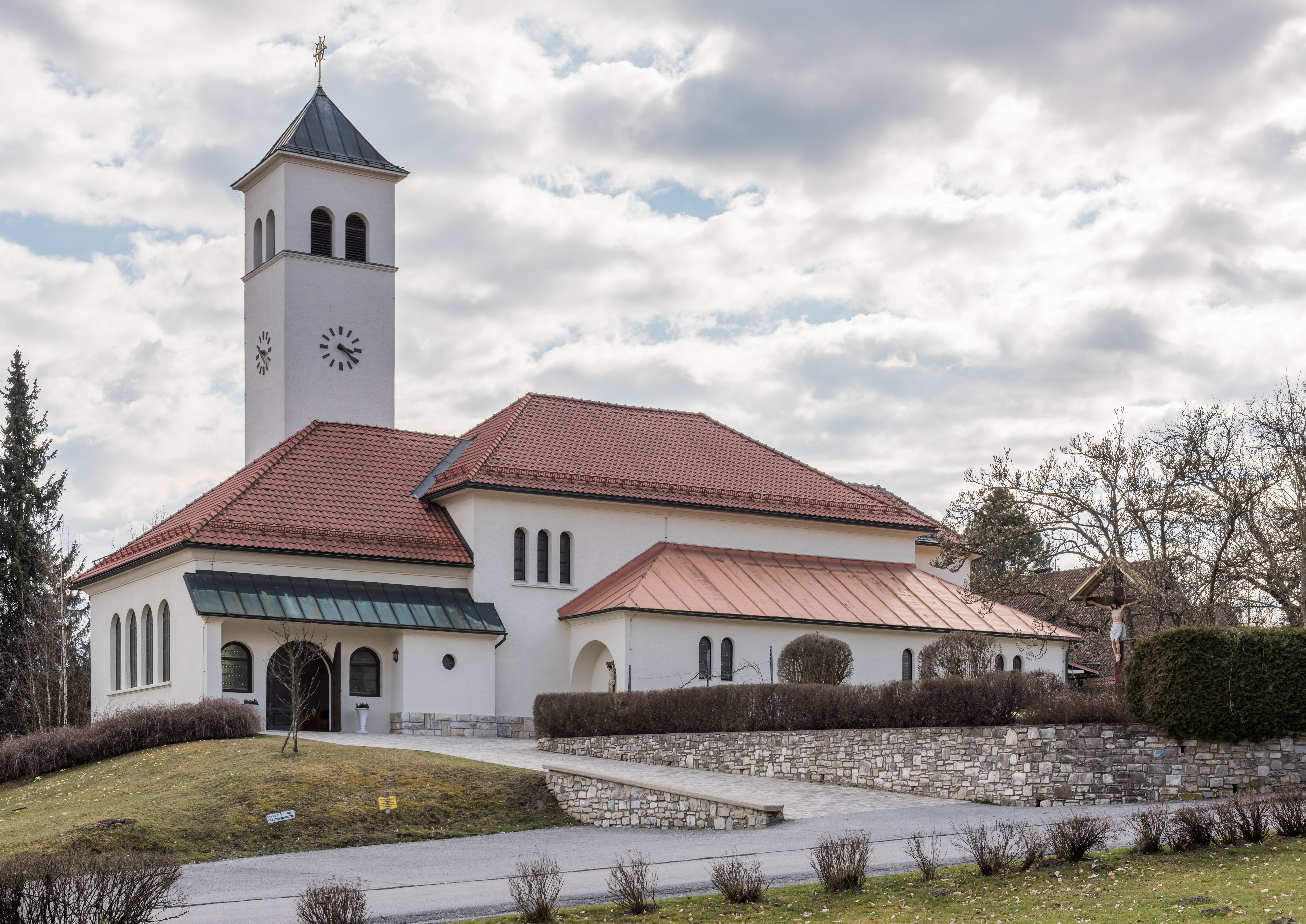 Roman Catholic parish church Our Lady, Kirchenstrasse #23, market town Velden am Wörthersee, district Villach Land, Carinthia, Austria, EU